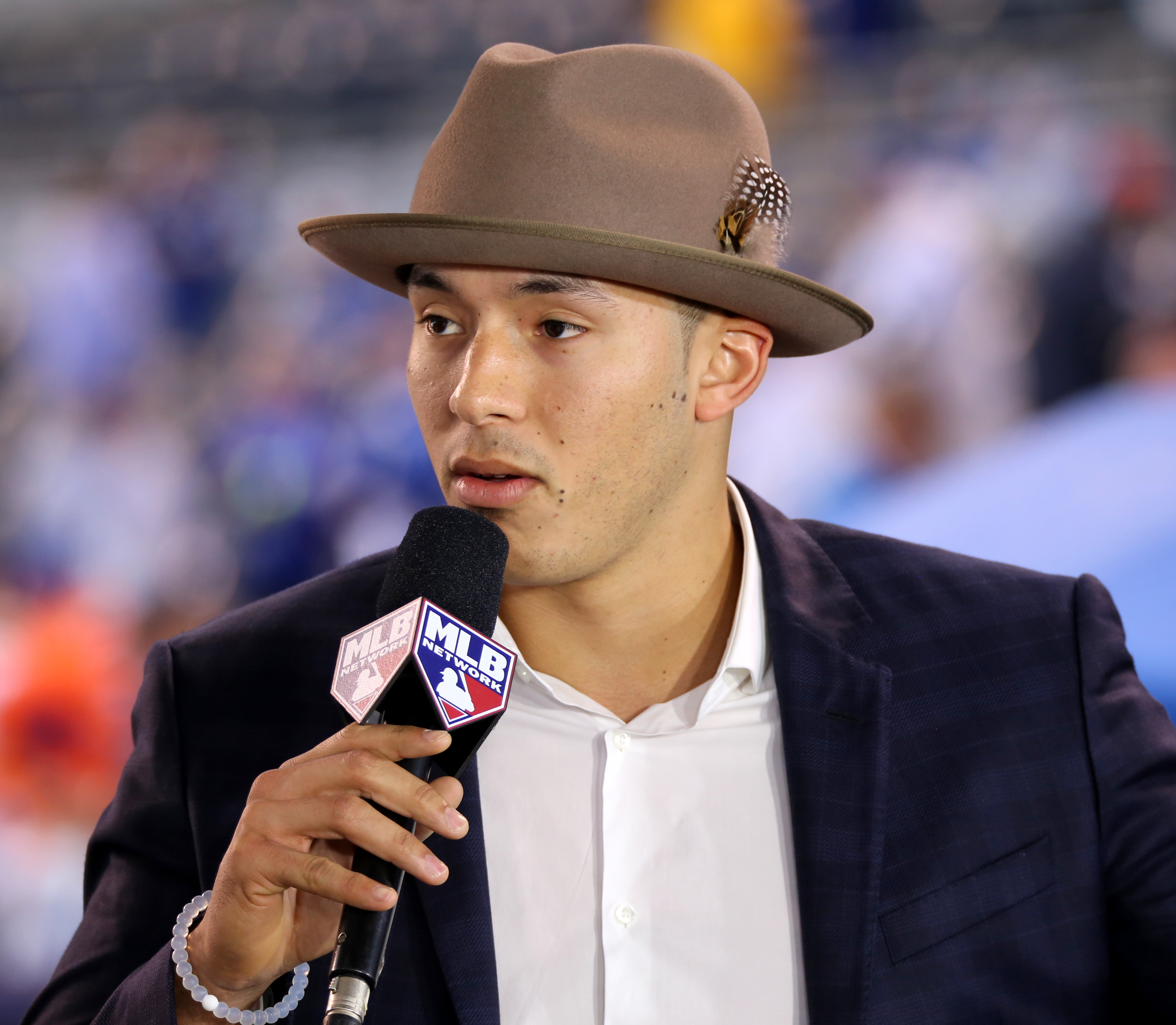 Carlos Correa on MLB Network.